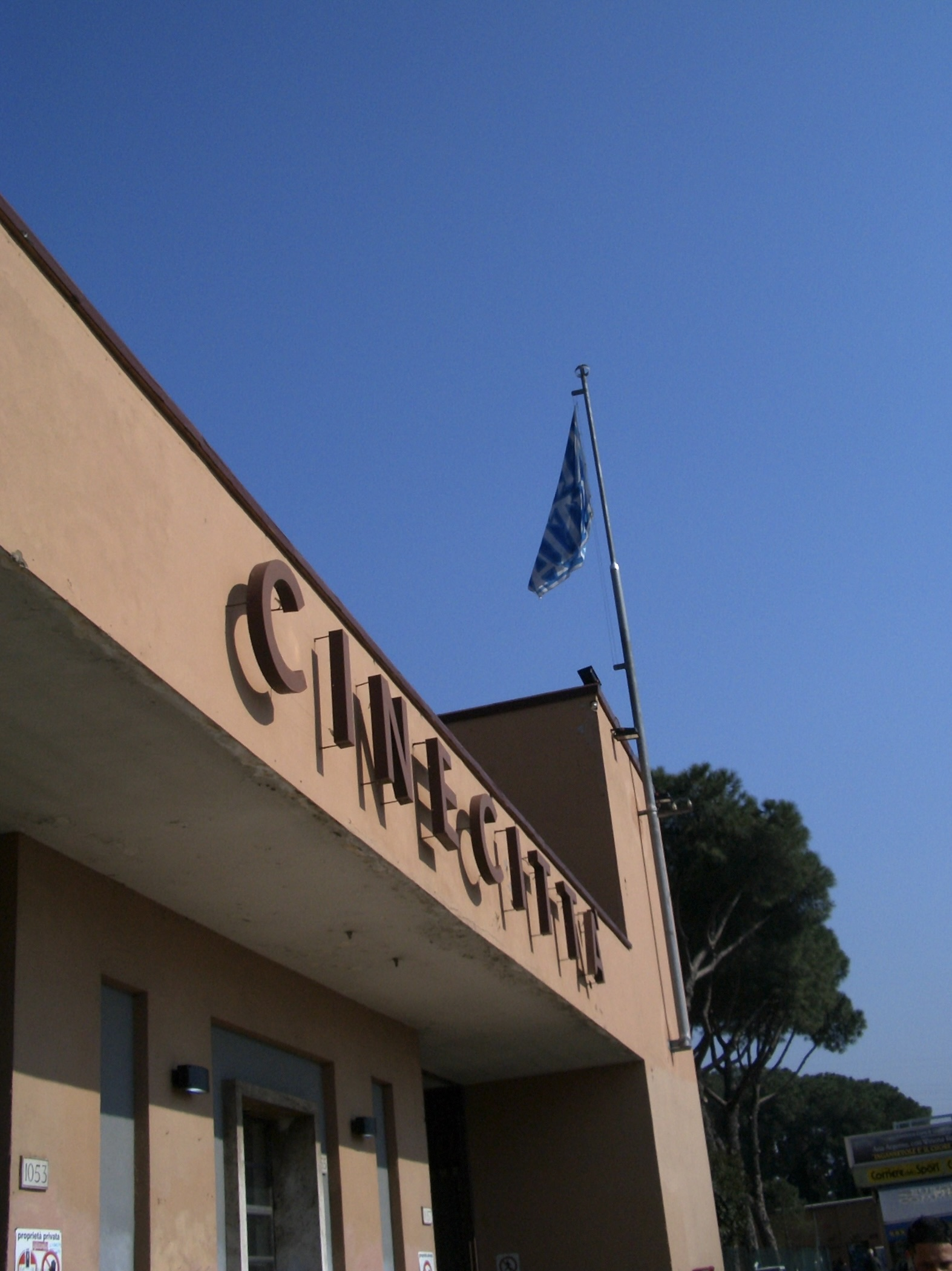 Entrance of the Cinecittà studios in Rome, Italy, own work, summer 2005